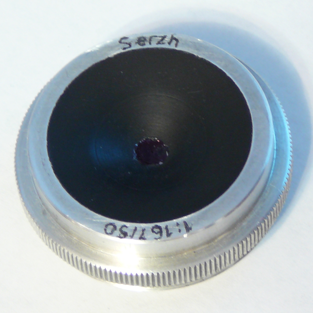 Custom pin-hole "photolens" from "Serzh" with «М42х1» thread. F= 50 mm, F#= 1:167.